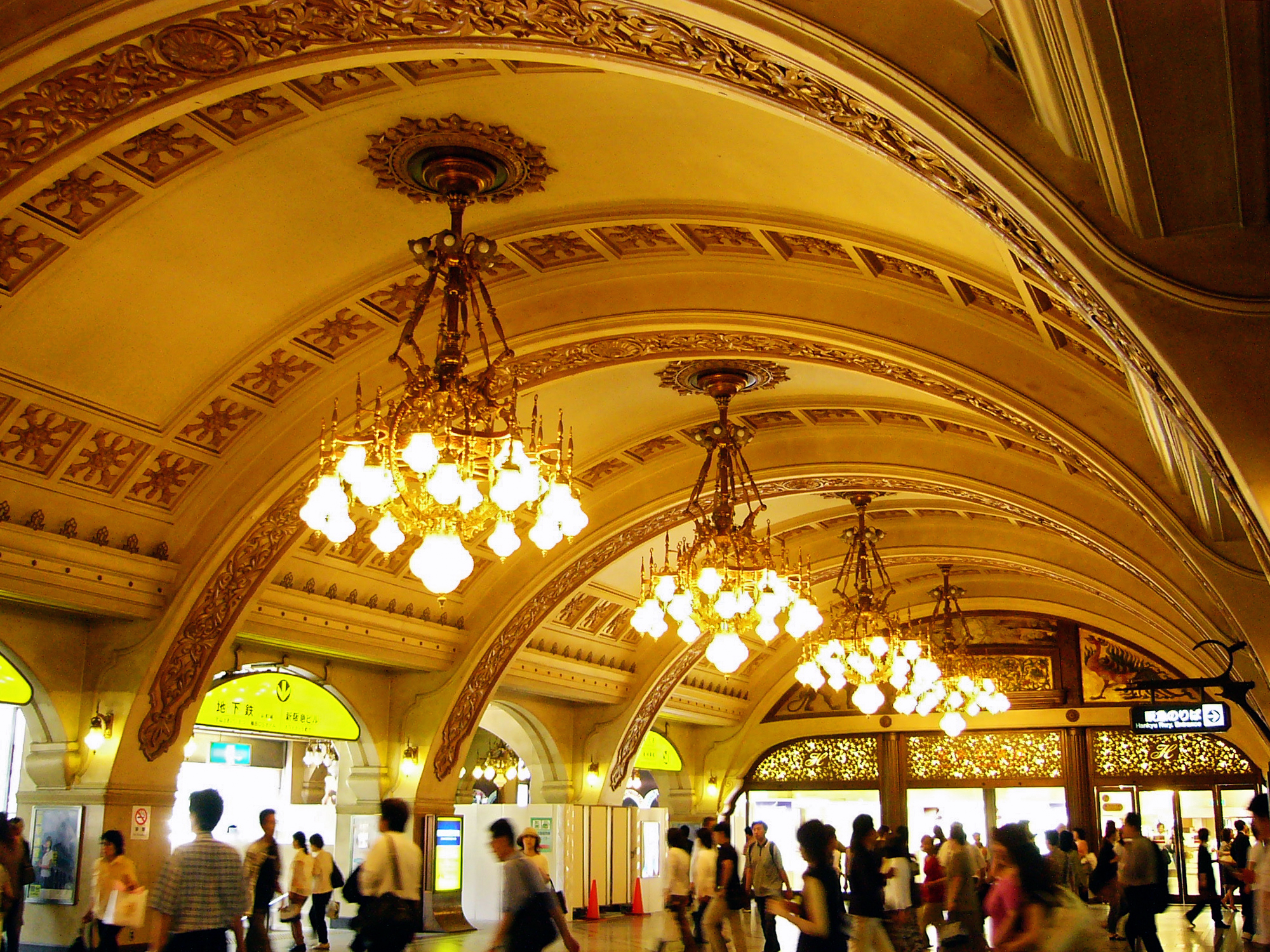 Former Hankyu Umeda Station in Osaka, Osaka prefecture, Japan